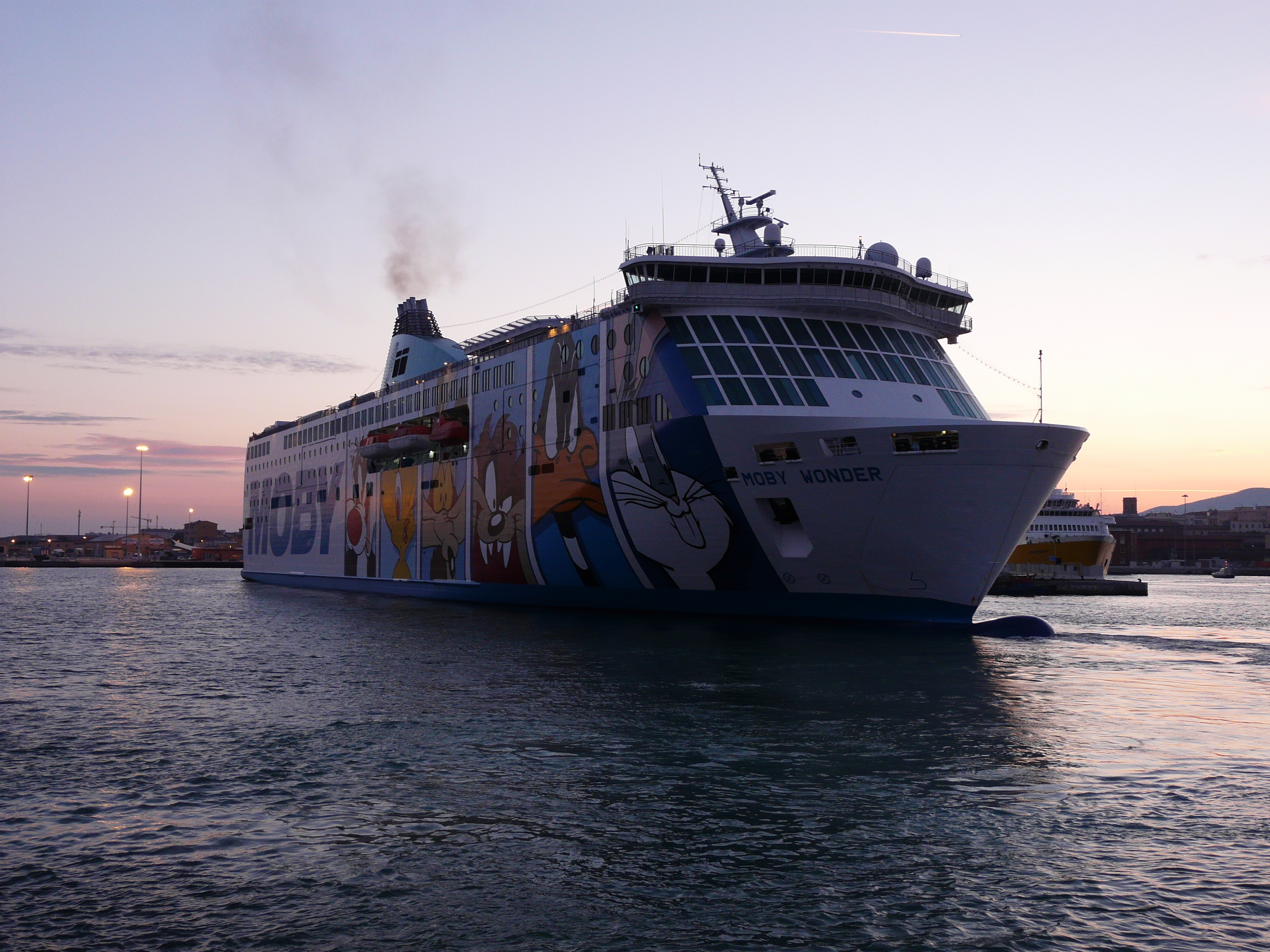 Passenger ferry "Moby Wonder" in Livorno on 22 of February, 2011. The vessel was built in South Korea in 2001.